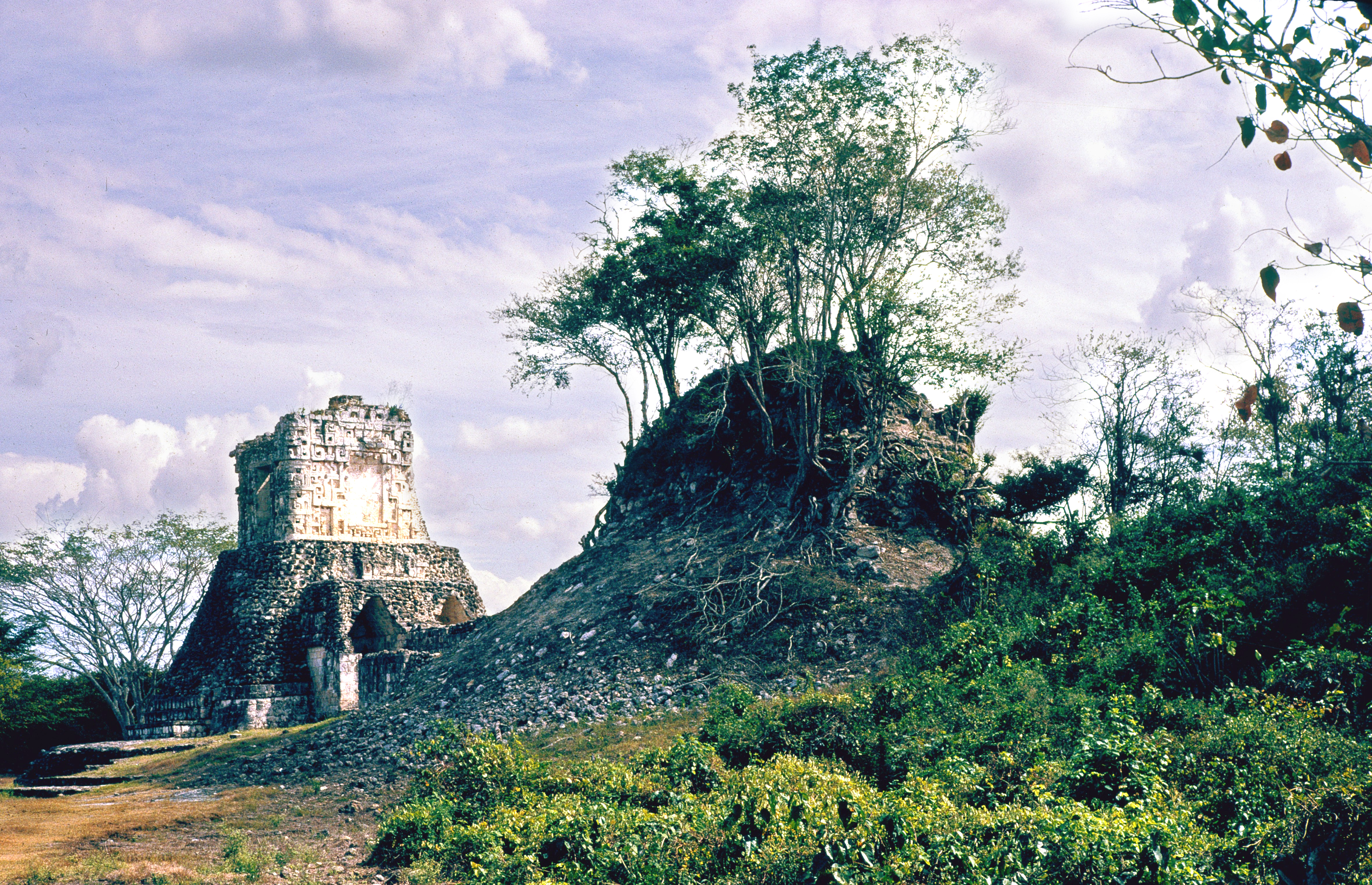 Dsibilnocac, Iturbido, Campeche, Mexico: eastern temple